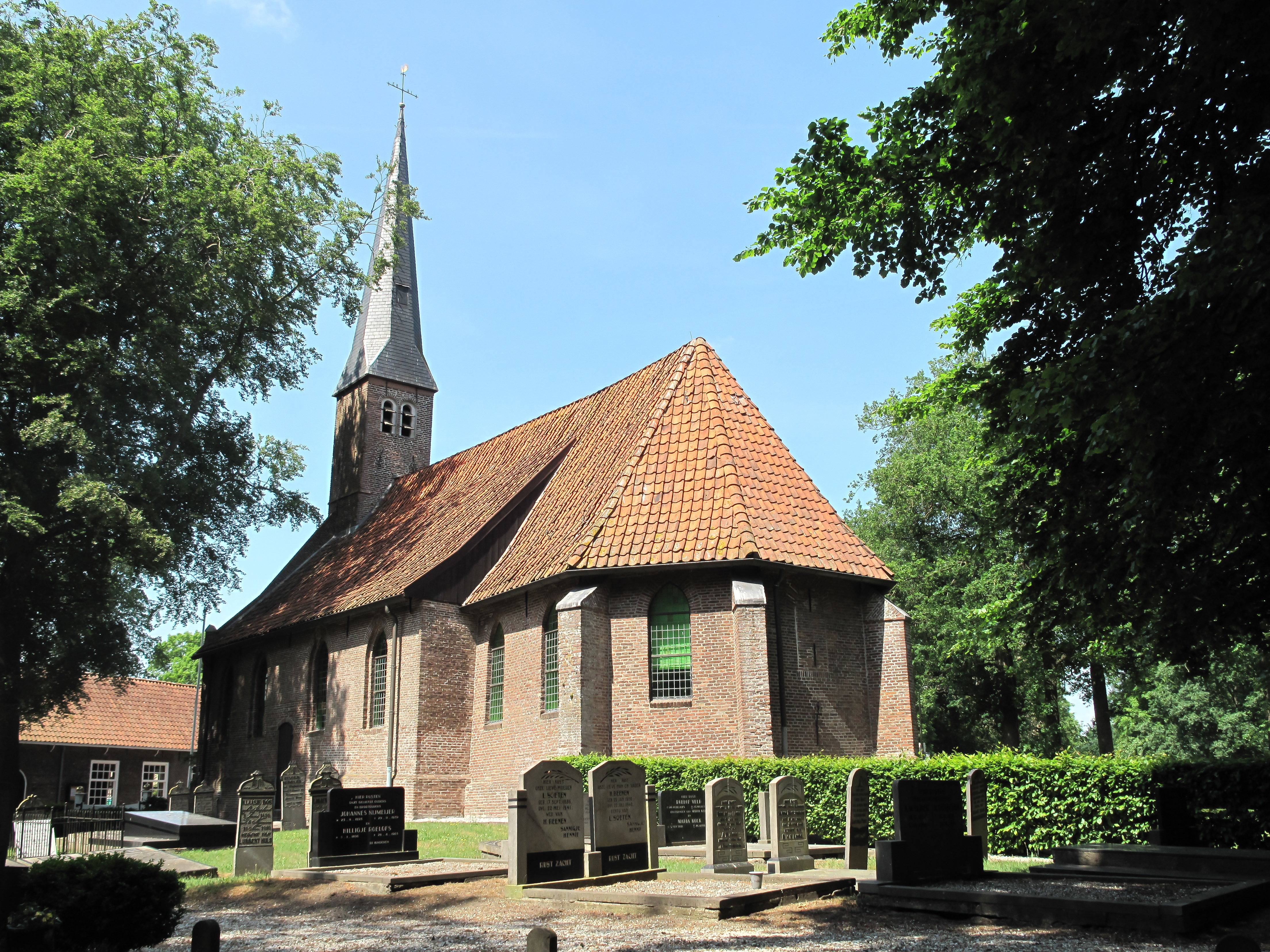 Nijeveen, church: de Nederlands Hervormde kerk